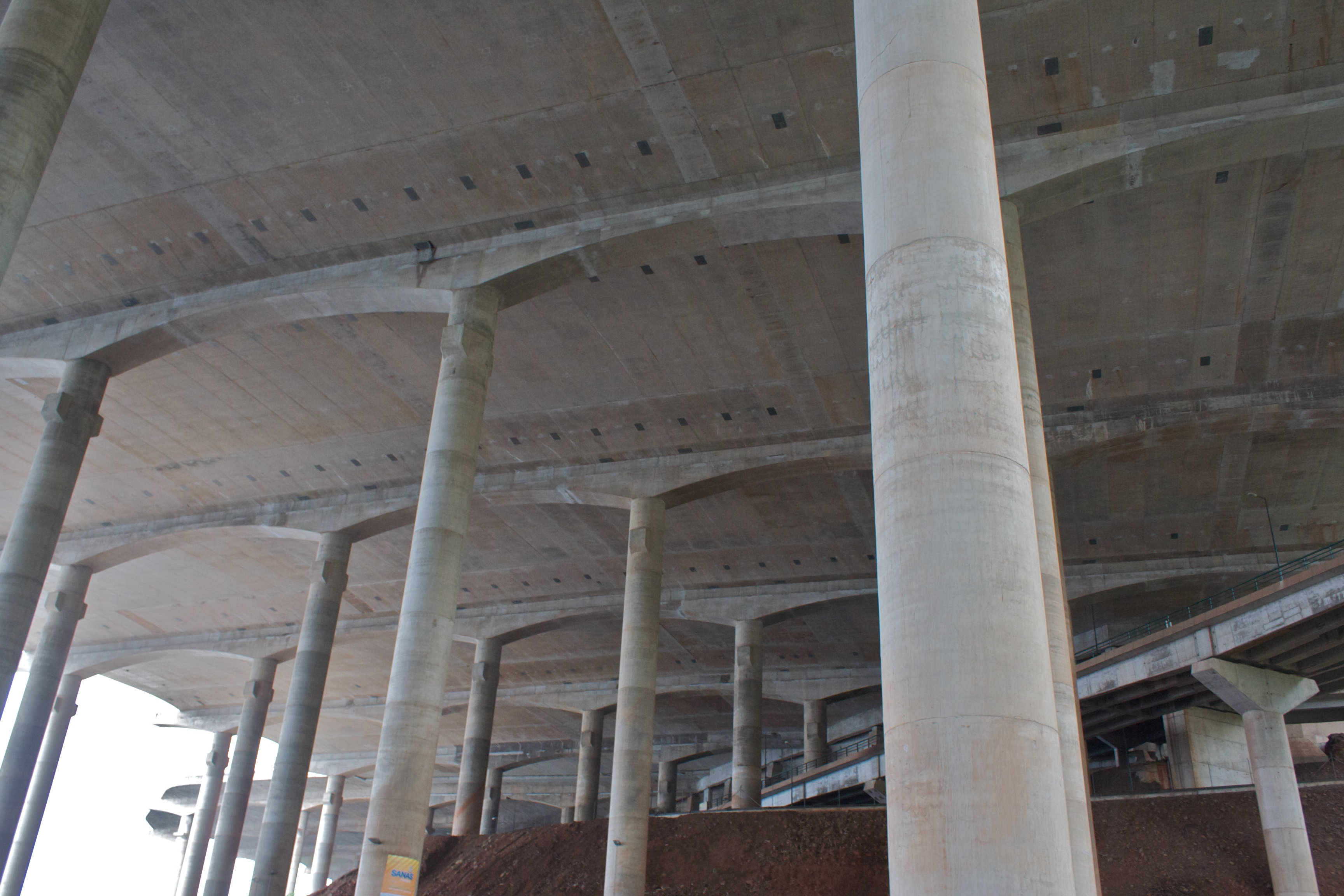 Under the airport runaway, Madeira